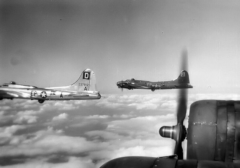 B-17s of the 351st Bombardment Squadron, 100th Bombardment Group